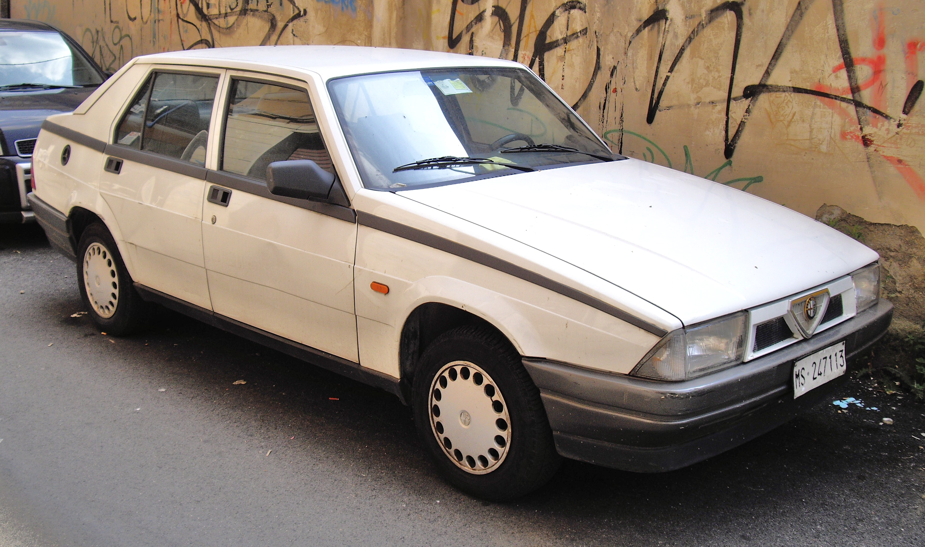 Alfa Romeo 75 white